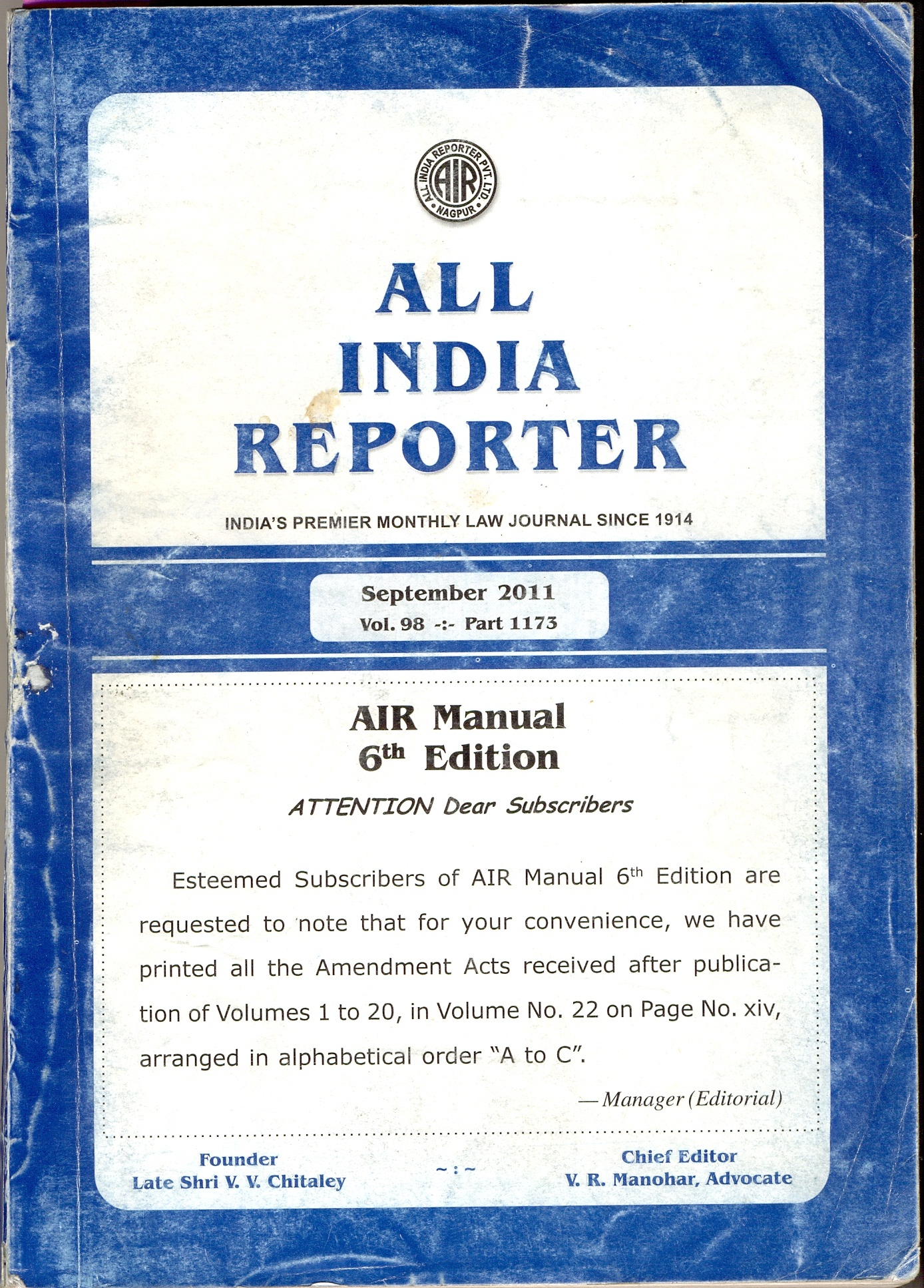 All India reporter is a journal or Book. If it is a JOURNAL , After binding how we will use it.like a Book or Journal